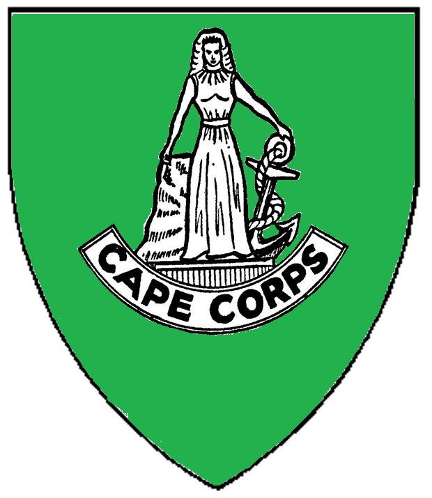 SADF Cape Corps emblem